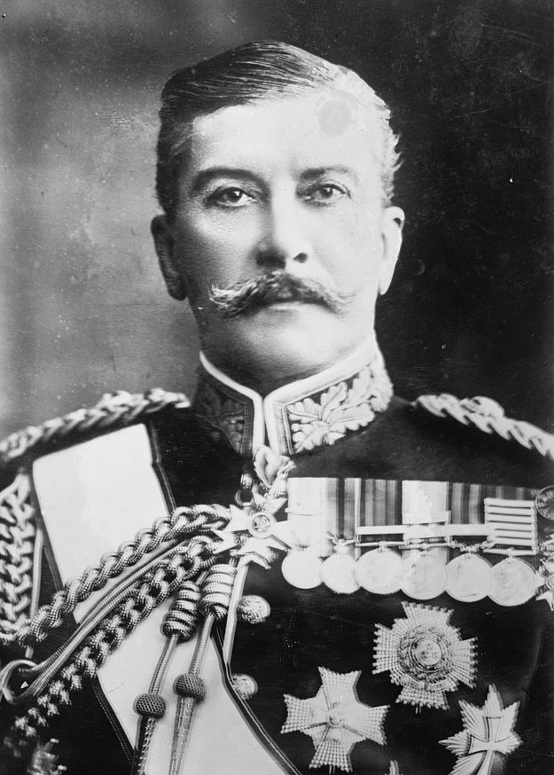 British army general and diplomat Sir Arthur Paget GCB GCVO (1851-1928)